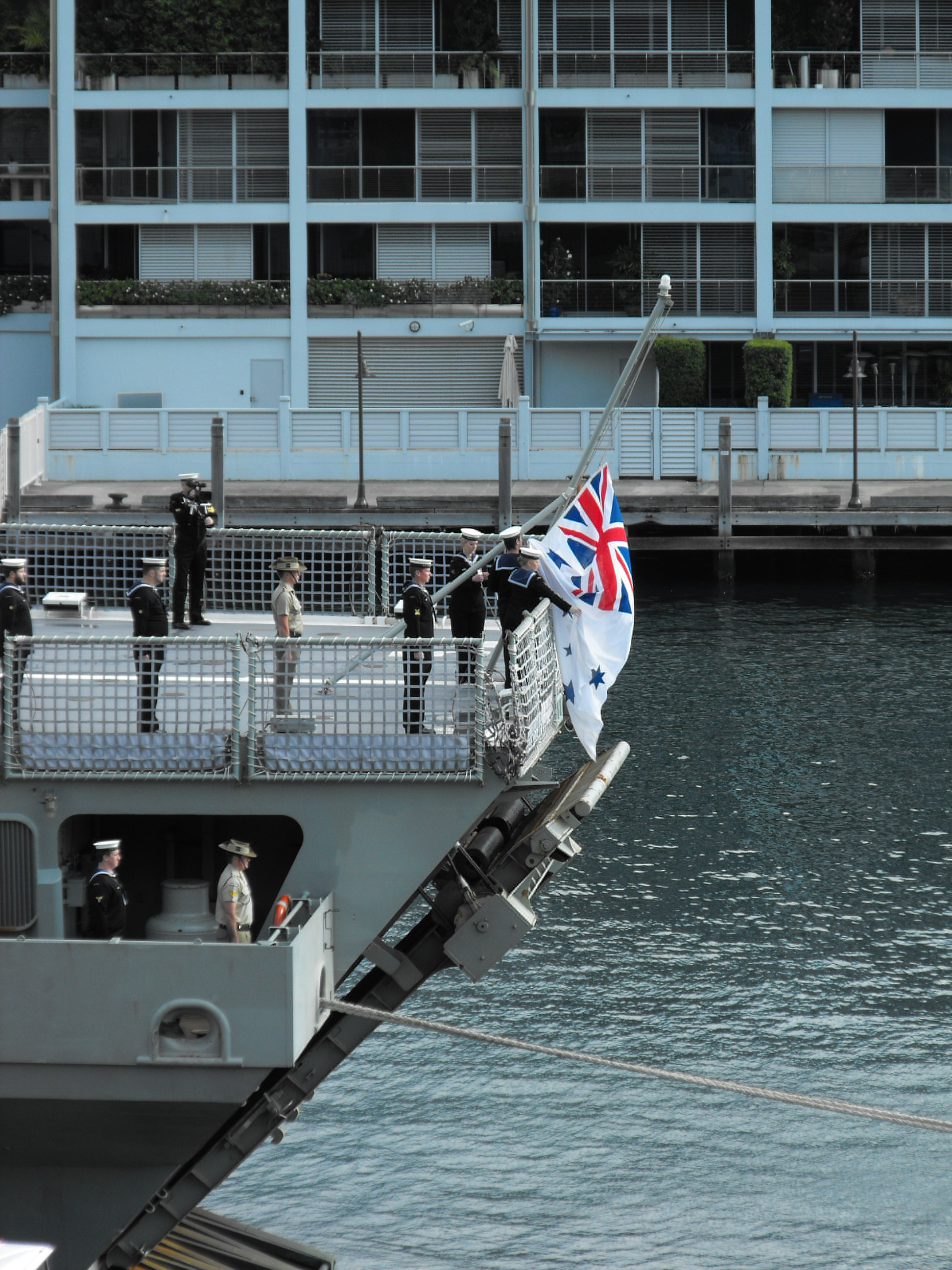 The Australian White Ensign is lowered for the final time aboard HMAS Manoora, during the ship's decommissioning ceremony